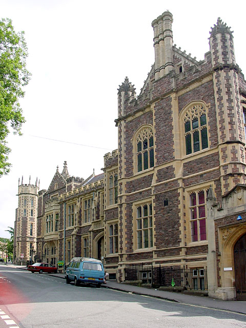 Geography Department, University of Bristol. This is one of the oldest parts of Bristol University. The Geography department is spread over two buildings.